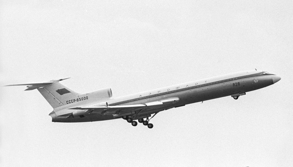 “A Soviet-made Tupolev Tu-154 airliner”. A Soviet-made Tupolev Tu-154 airliner taking off.